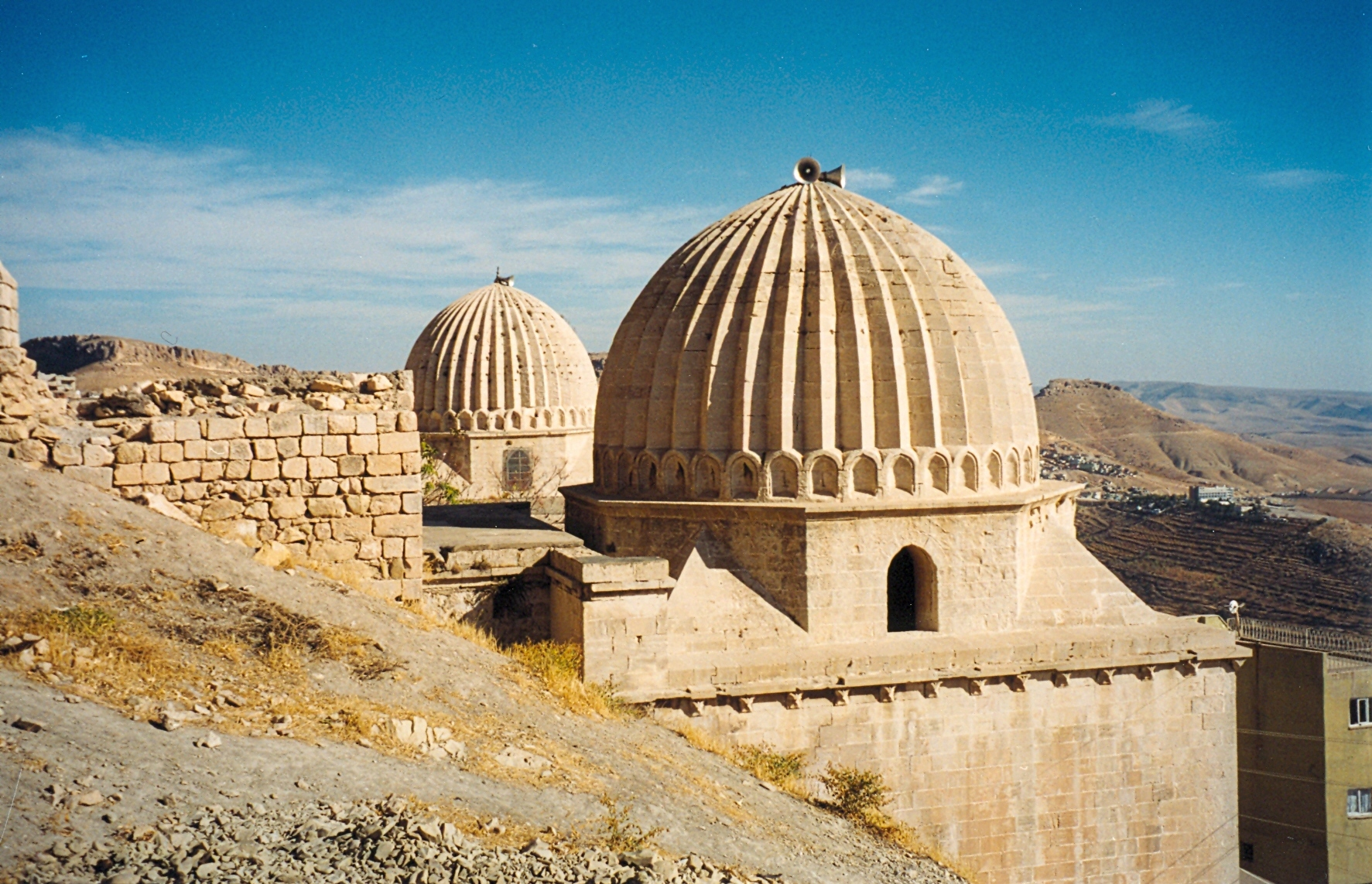 Domes of Sultan İsa Medresesi, Mardin, Turkey.